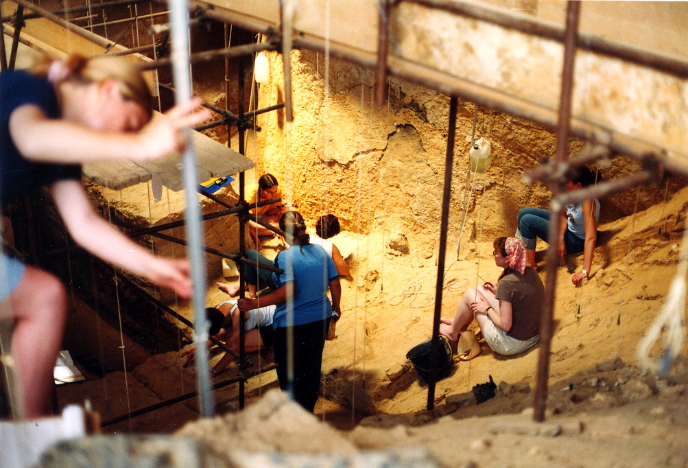 Arago-cave, near Tautavel (Perpignan-region), France